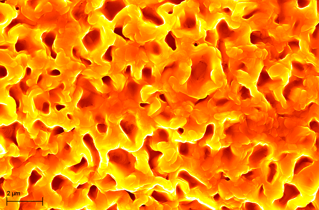 Sponge-like surface of copper (II) oxide obtained by electroplating and annealing in the air.The surface was investigated by scanning electron microscopy ( Zeiss SIGMA).